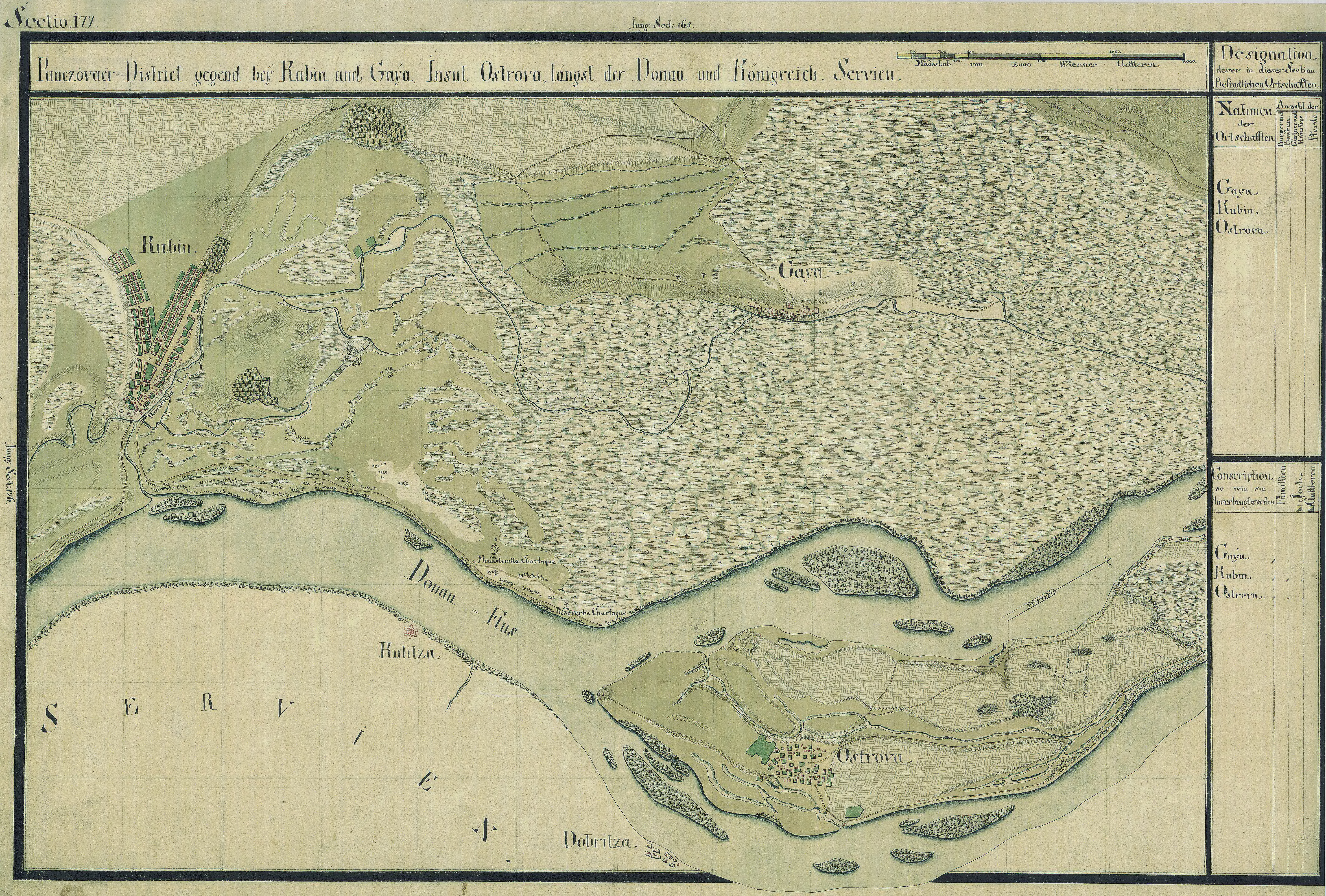 The Banat region in the cadastral maps: Josephinische Landesaufnahme, 1769-72. Josephinische Landaufnahme pg177